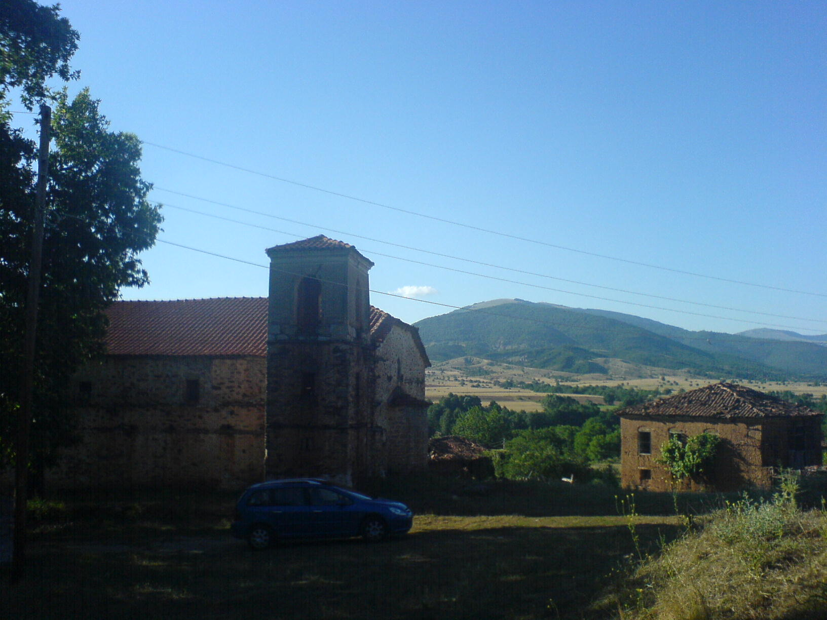 Church of Village of Drenoveni or Kranionas, Macedonia, Greece.